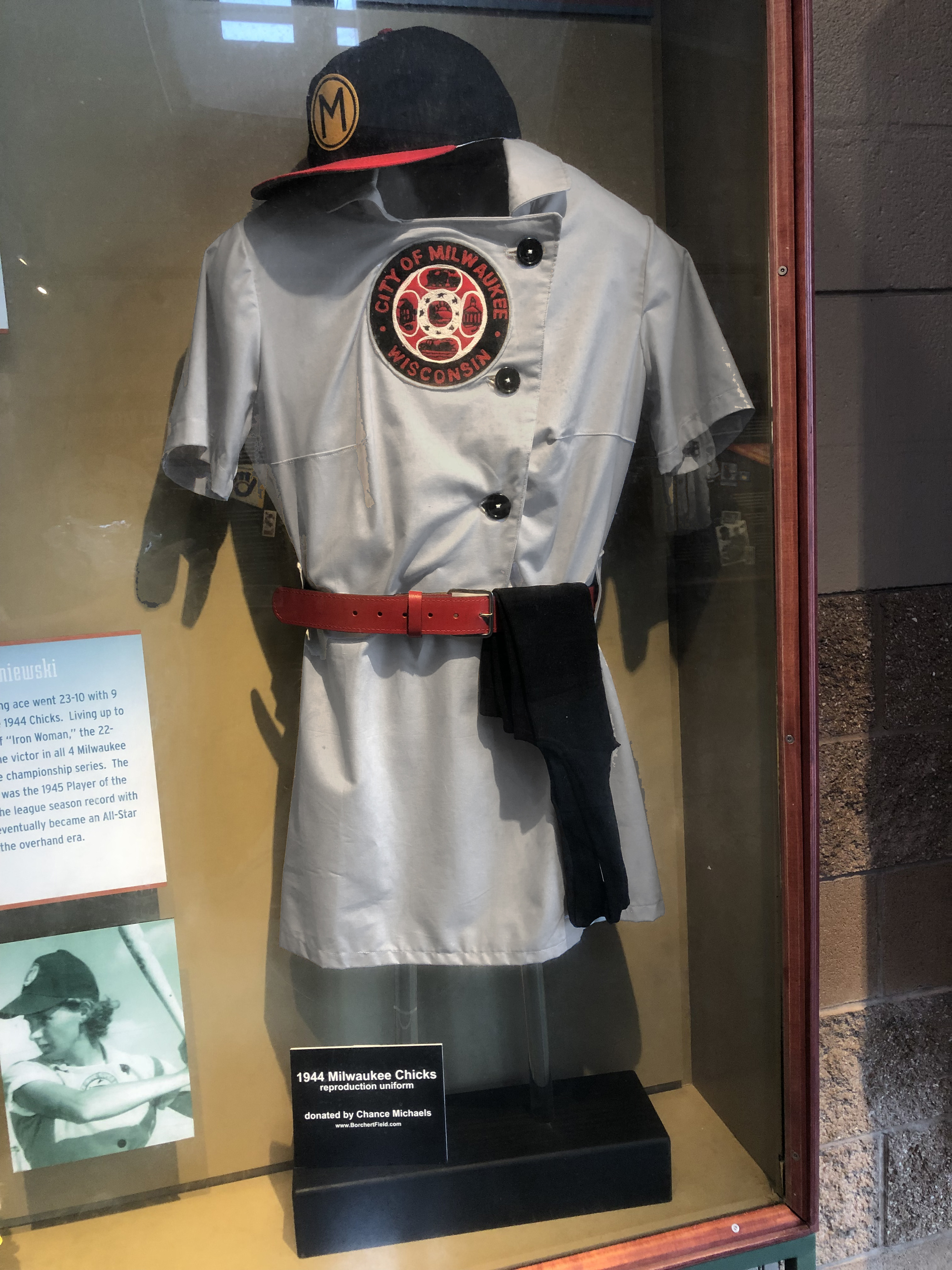 This is a reproduction 1944 Milwaukee Chicks uniform on display at Miller Park, home of the Milwaukee Brewers. It is part of a display dedicated to the All-American Girls Professional Baseball League in the "Hot Corner", the third base corner of the main concourse.